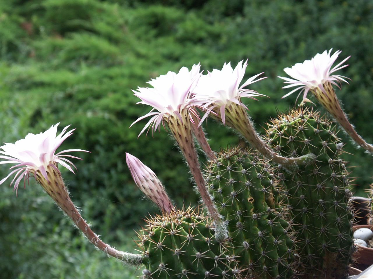 Echinopsis oxygona